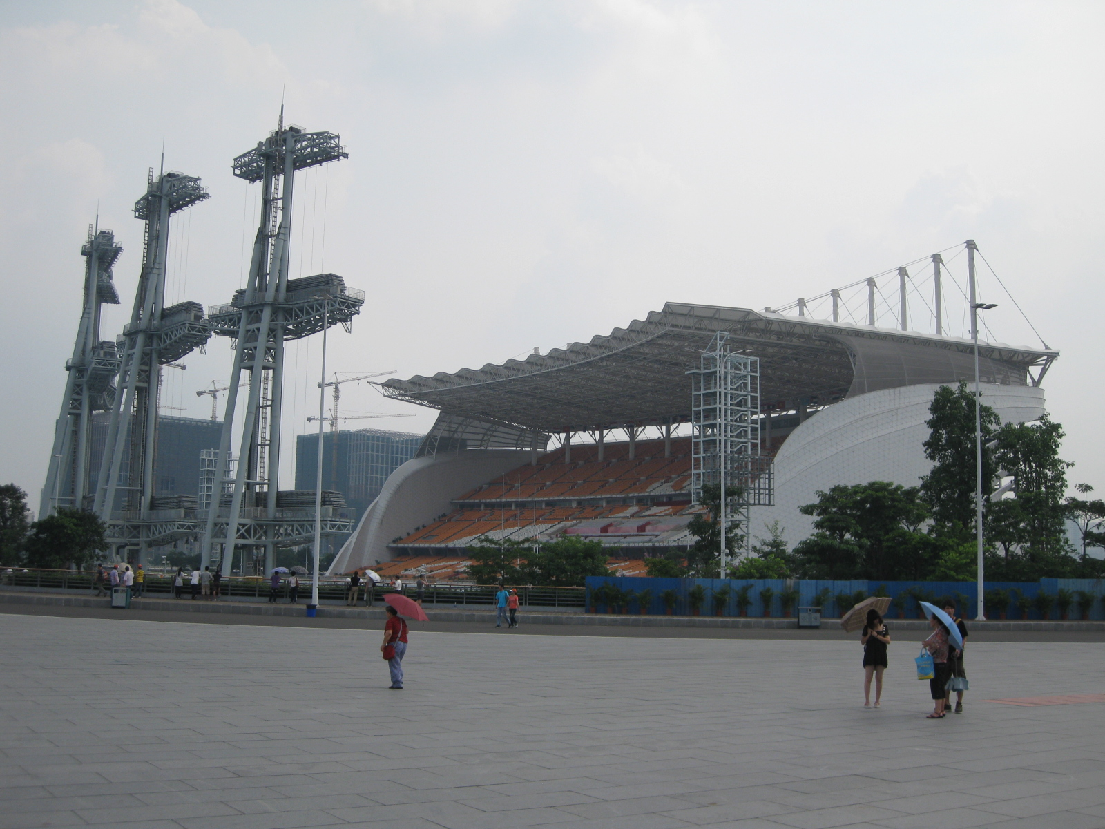 Haixinsha Guangchang